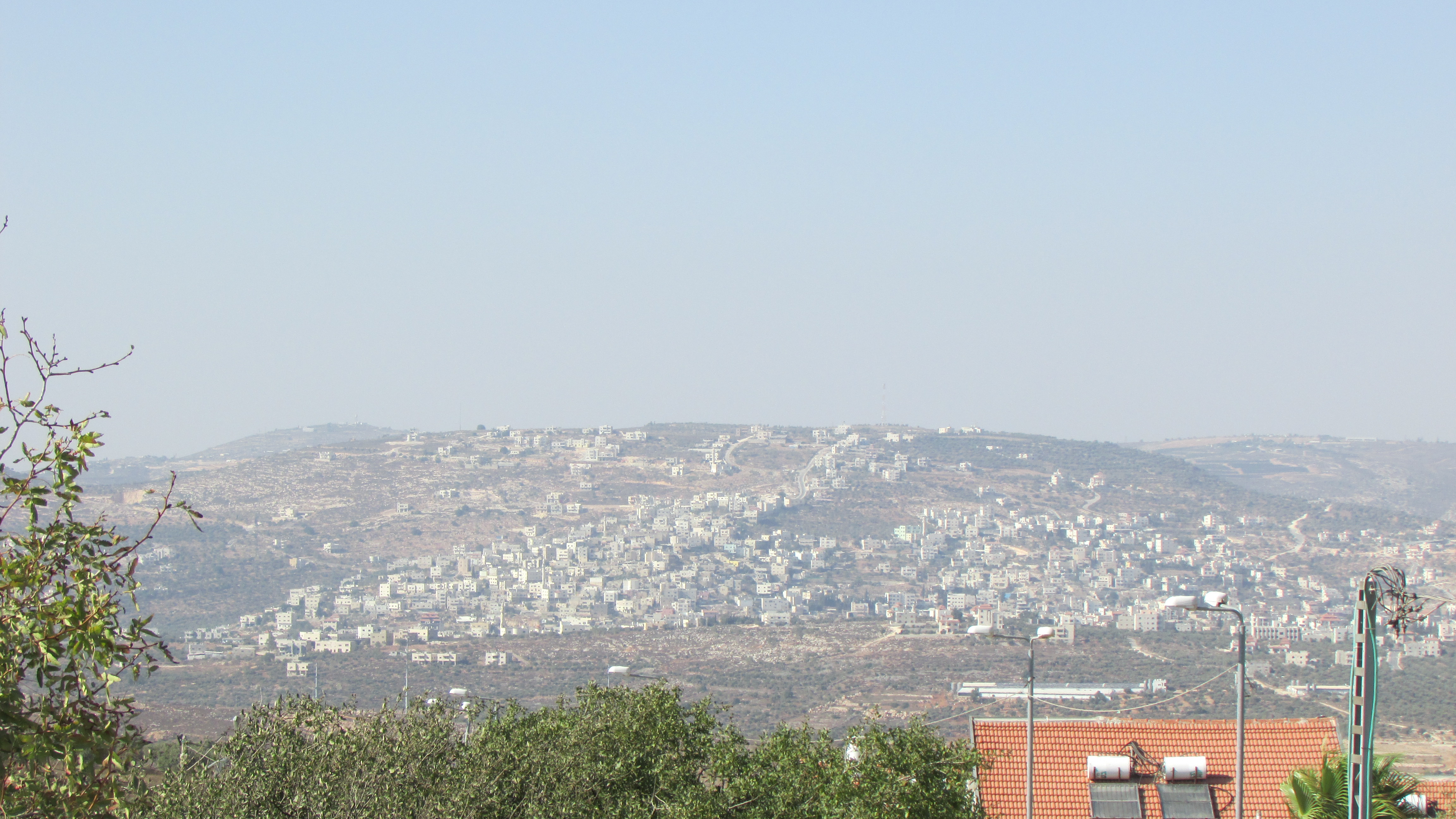 Aqraba, Nablus from the sourth